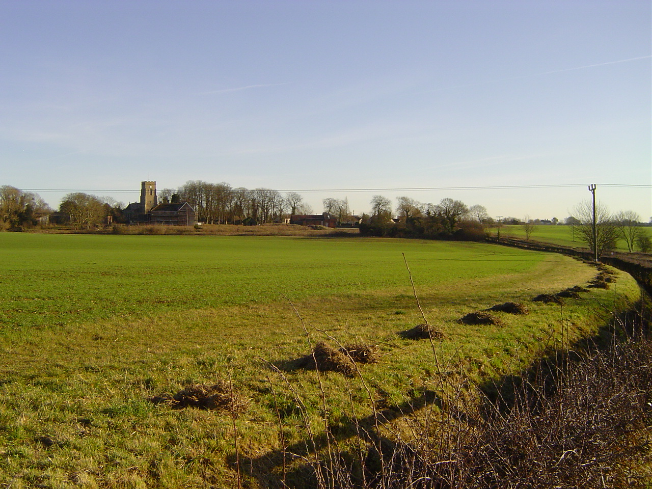 Setting of All Saints Church and Lawshall Hall, Lawshall, Suffolk